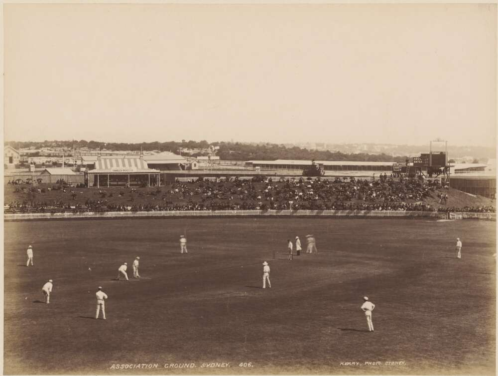 Photograph of a cricket match in progress at the Association Ground (now the Sydney Cricket Ground), Moore Park, Sydney, New South Wales, Australia.